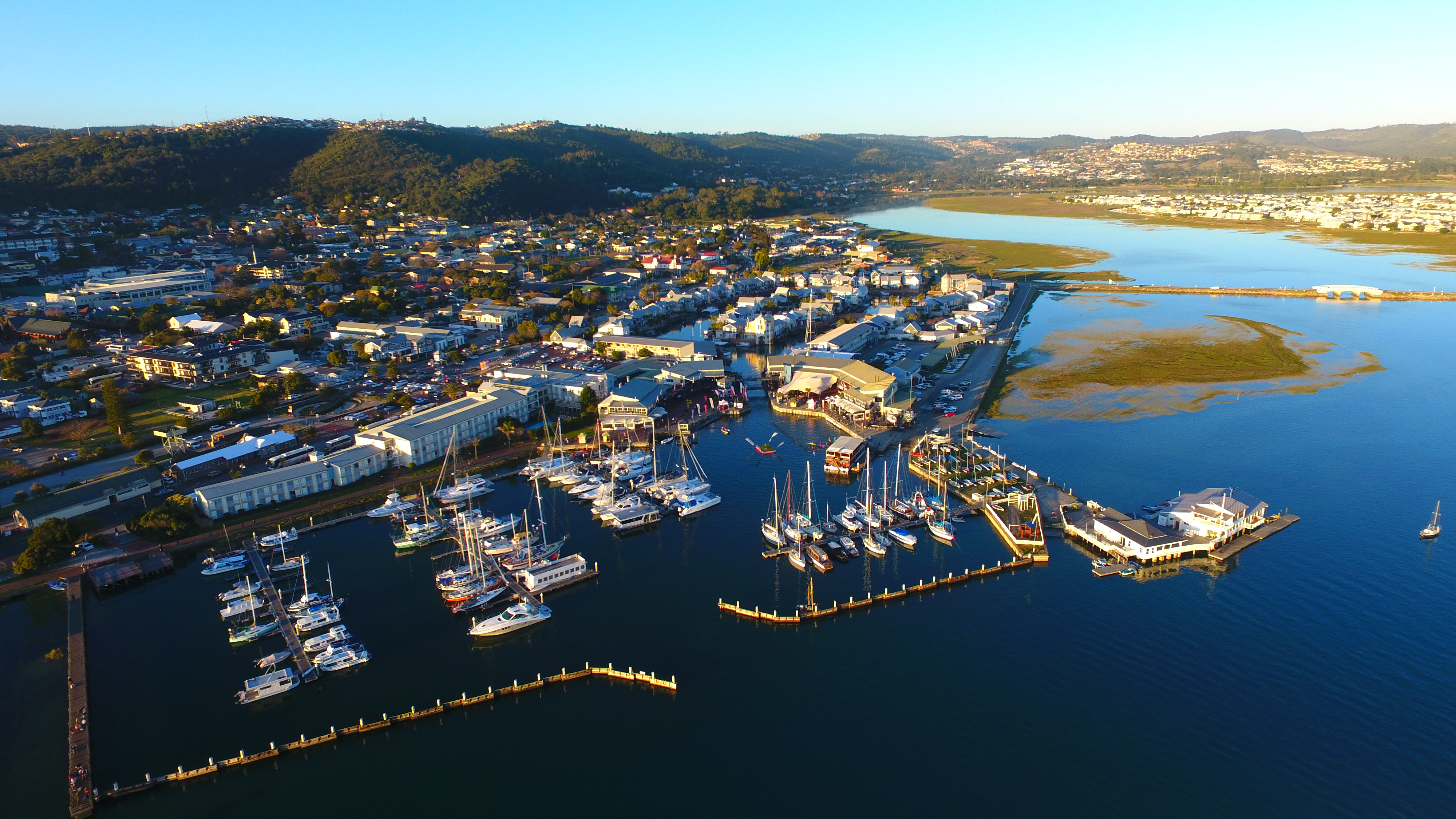 Aerial View of the knysna waterfront